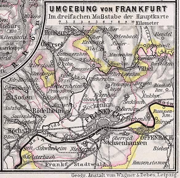 Detail from a map of Hesse.